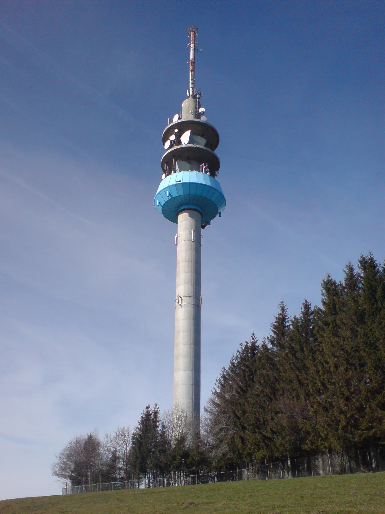 Blender (mountain) with tower, picture taken from northeast